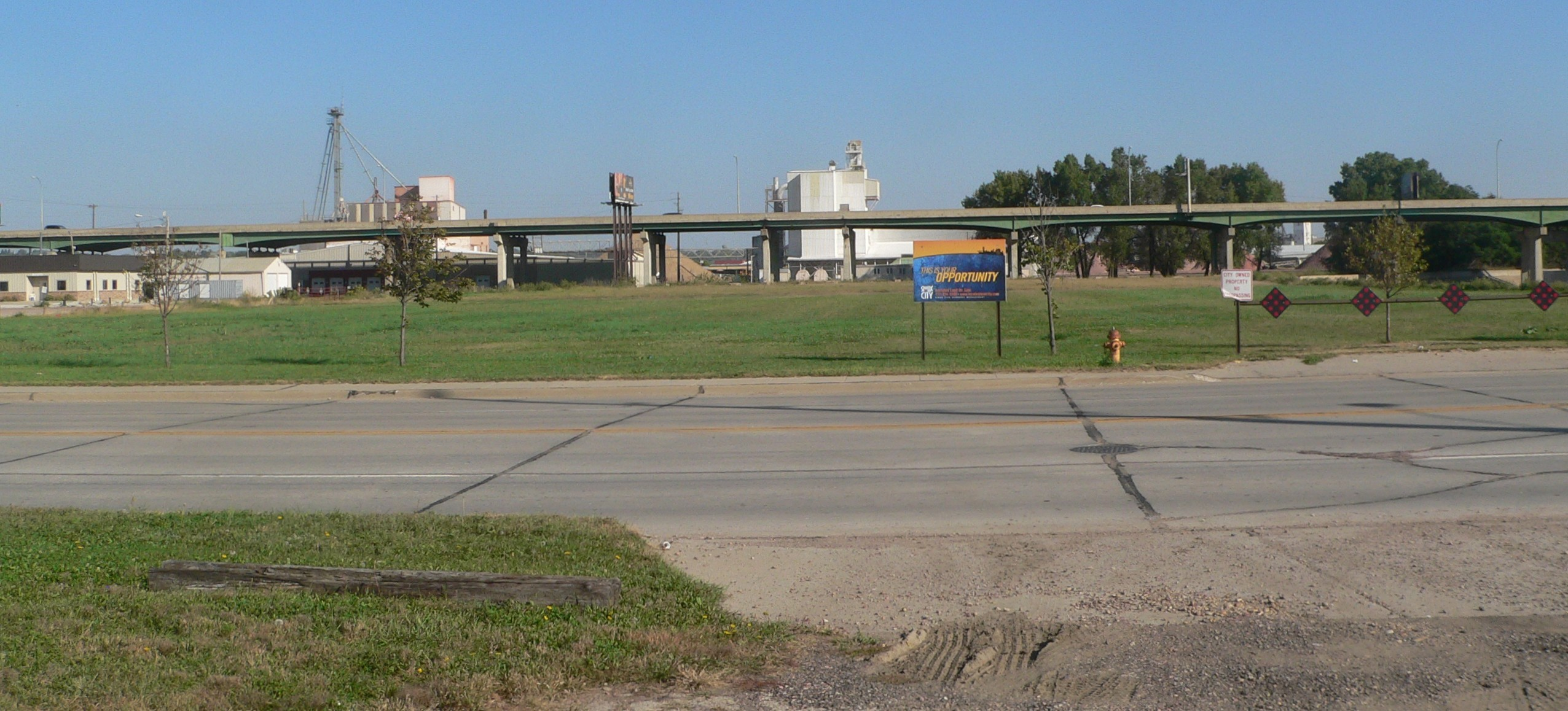 Vacant lot formerly occupied by Swift & Co. packing plant, a.k.a. Midland Packing Company, a.k.a. KD Stockyards Station, at 2001 Leech Avenue (north side of Leech just west of Floyd River) in Sioux City, Iowa. Camera is facing north across Leech.